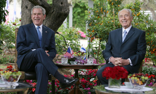 President George W. Bush and President Shimon Peres of Israel smile for photographers Wednesday, May 14, 2008, during their meeting at President Peres’ Jerusalem residence.